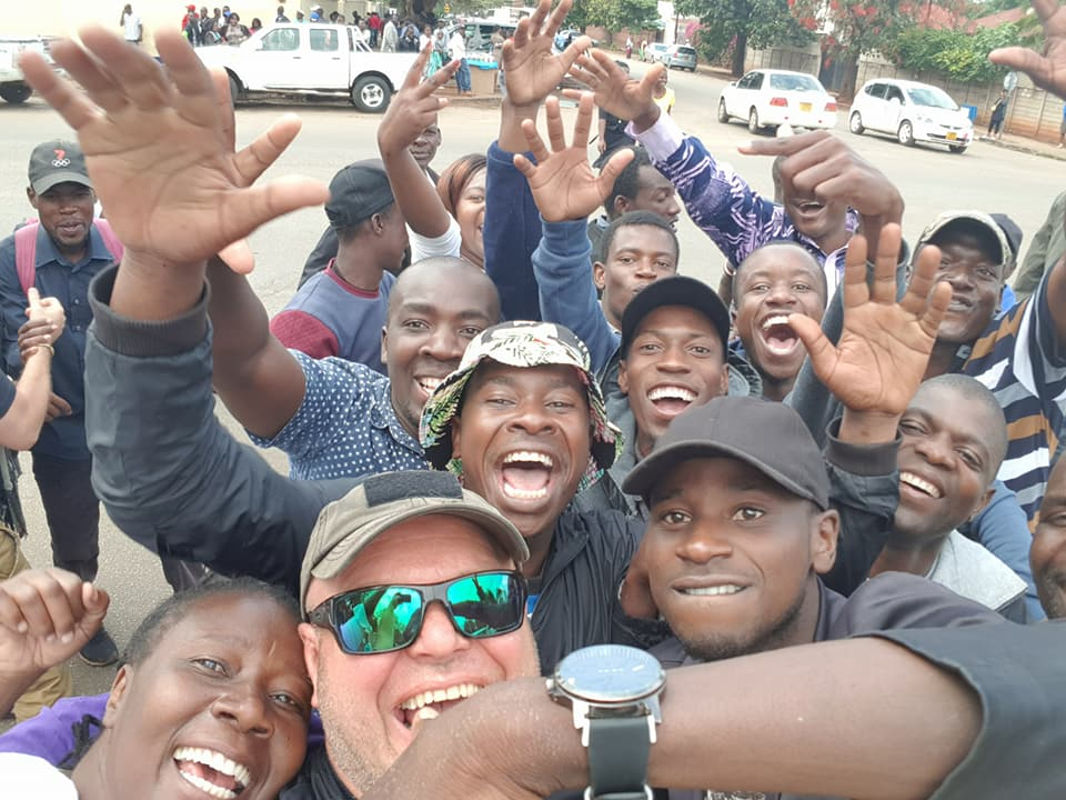 People of mixed races celebrating Mugabe's removal and current social changes. No hate, no rioting, no looting, no racism.